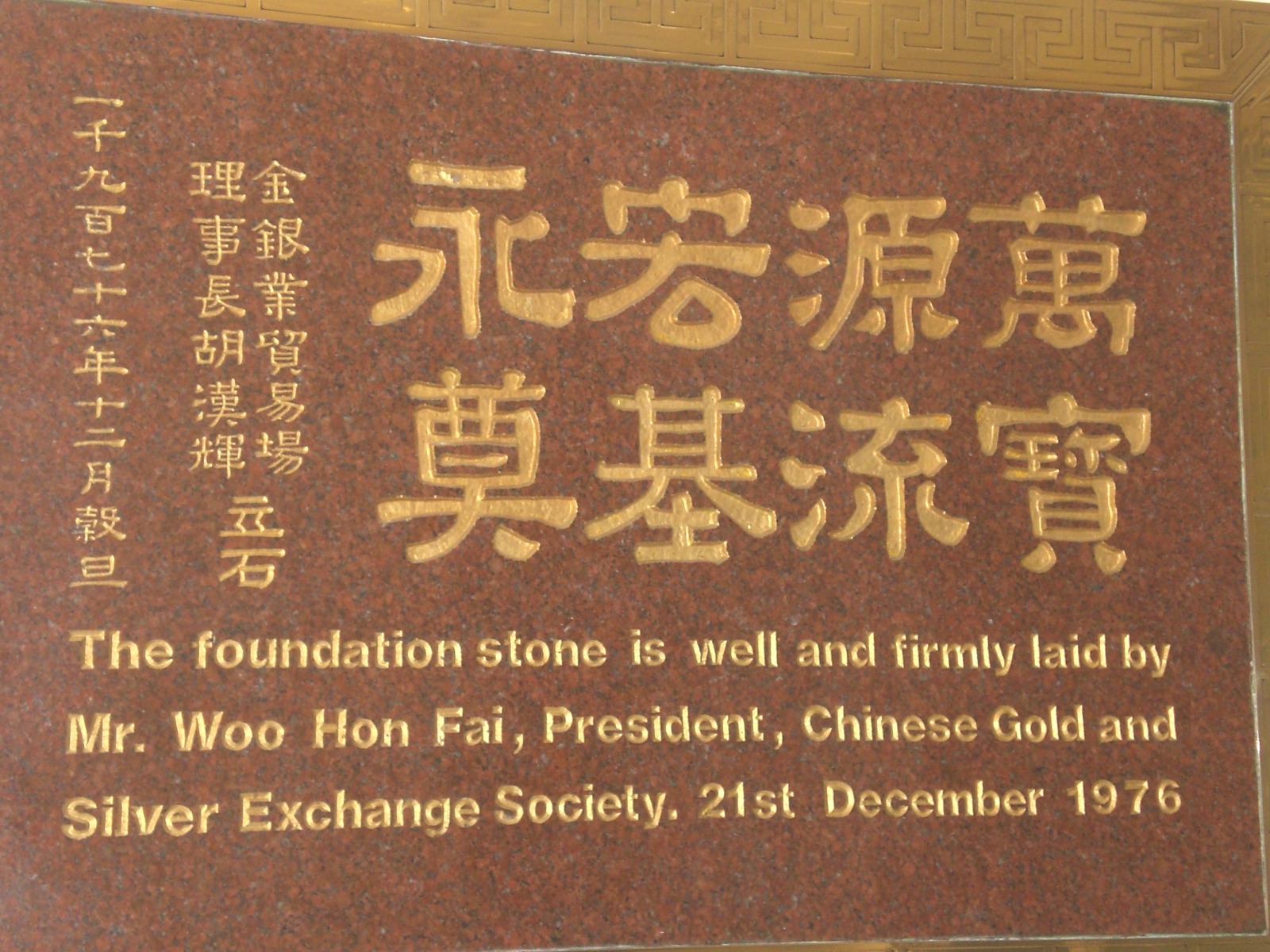 上環 孖沙街 香港金銀業貿易場 奠基石 由理事長胡漢輝立石